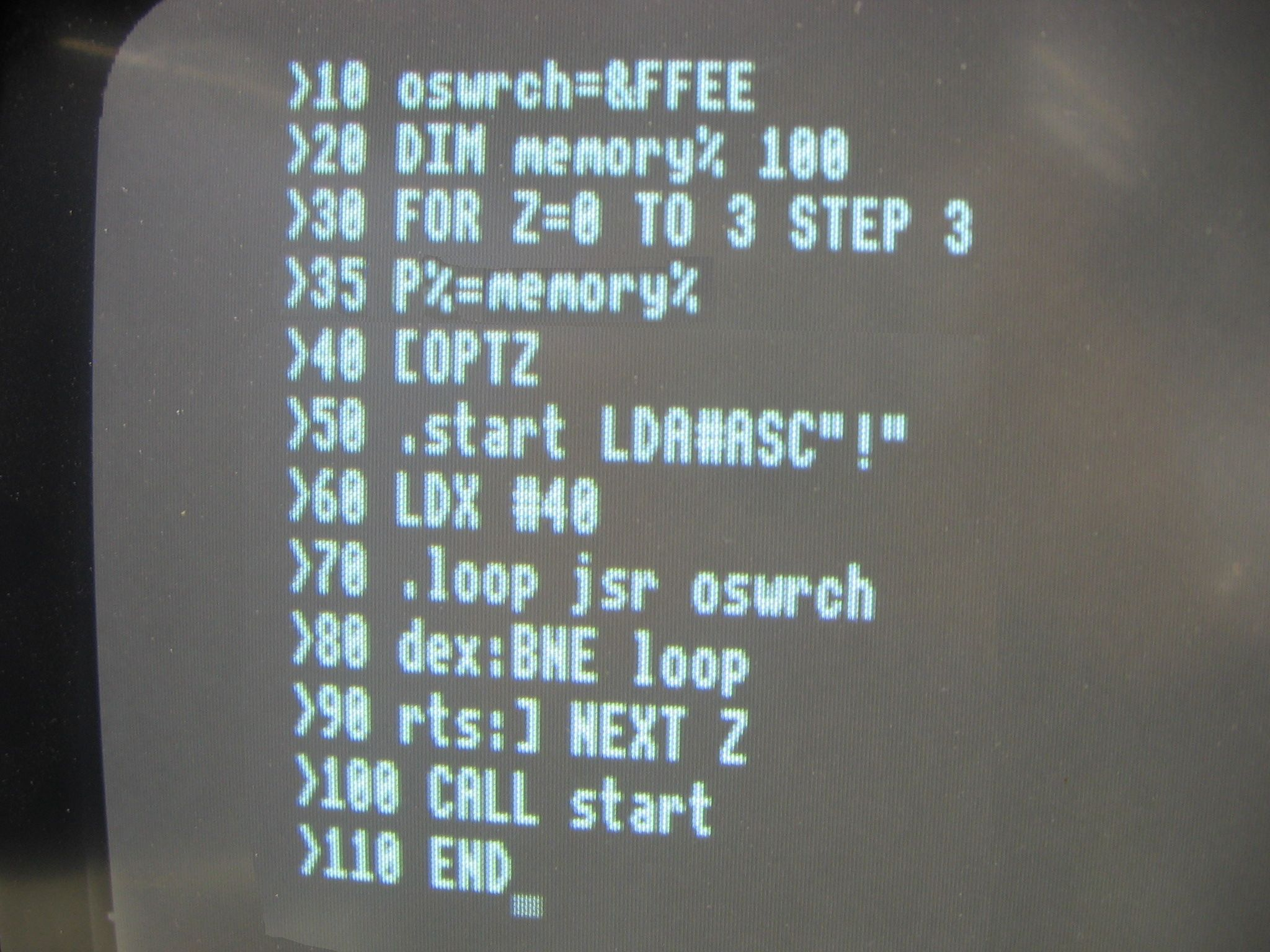 Piece of BASIC code (containing inline 6502 assembly) copied from the manual. It is missing "P%=memory%" between lines 30 and 40 and will likely crash.[1]